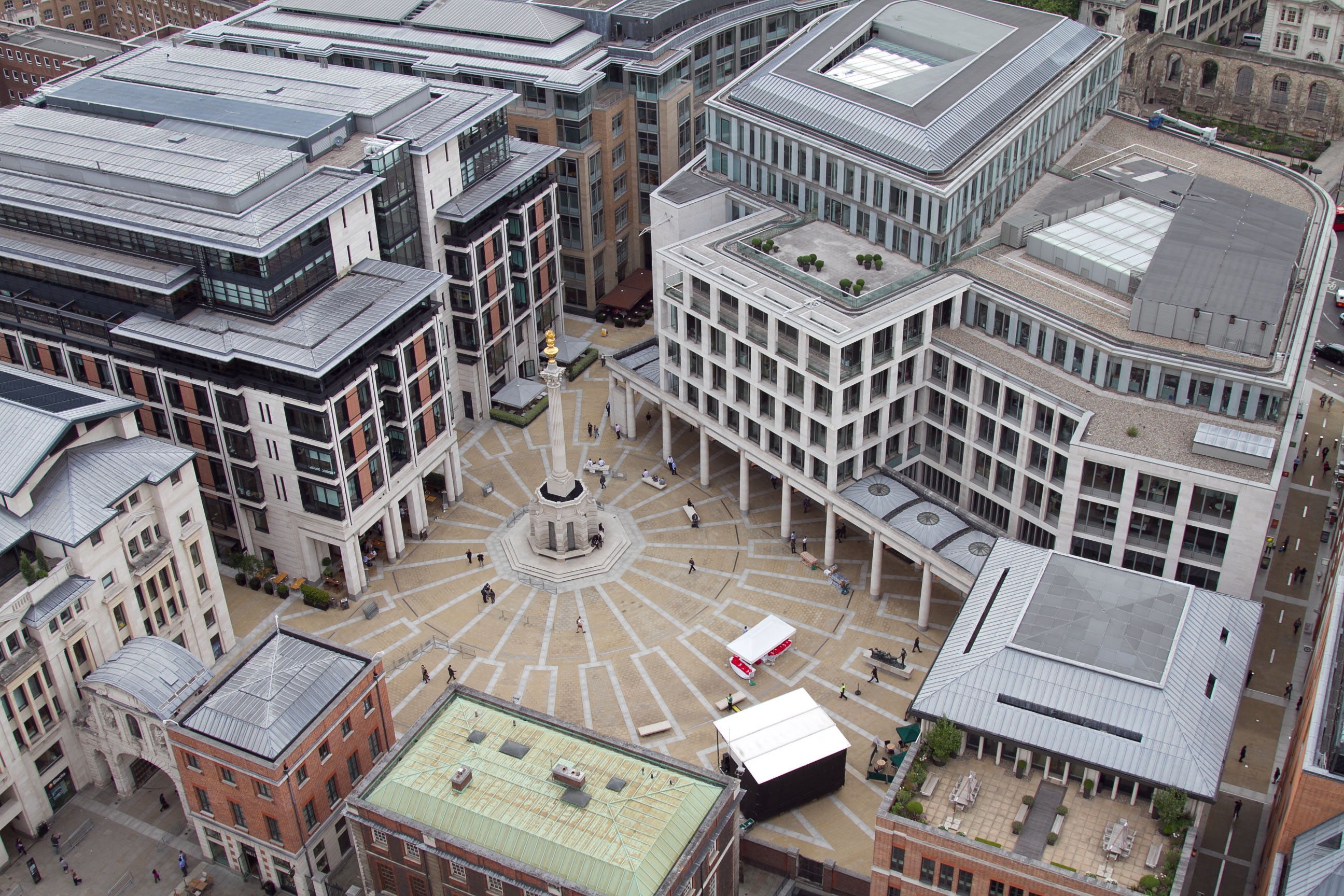 Paternoster Square, home of the London Stock Exchange